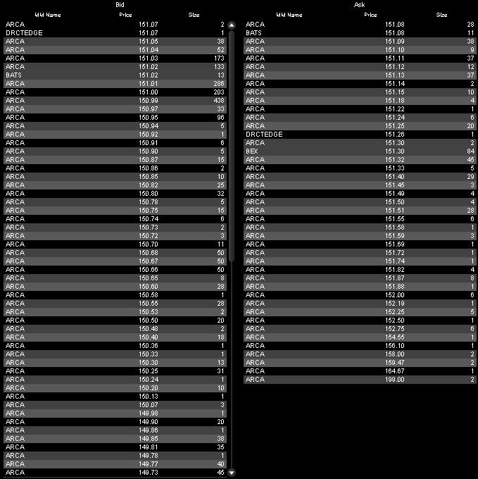 Slippage Example on the SPY ETF